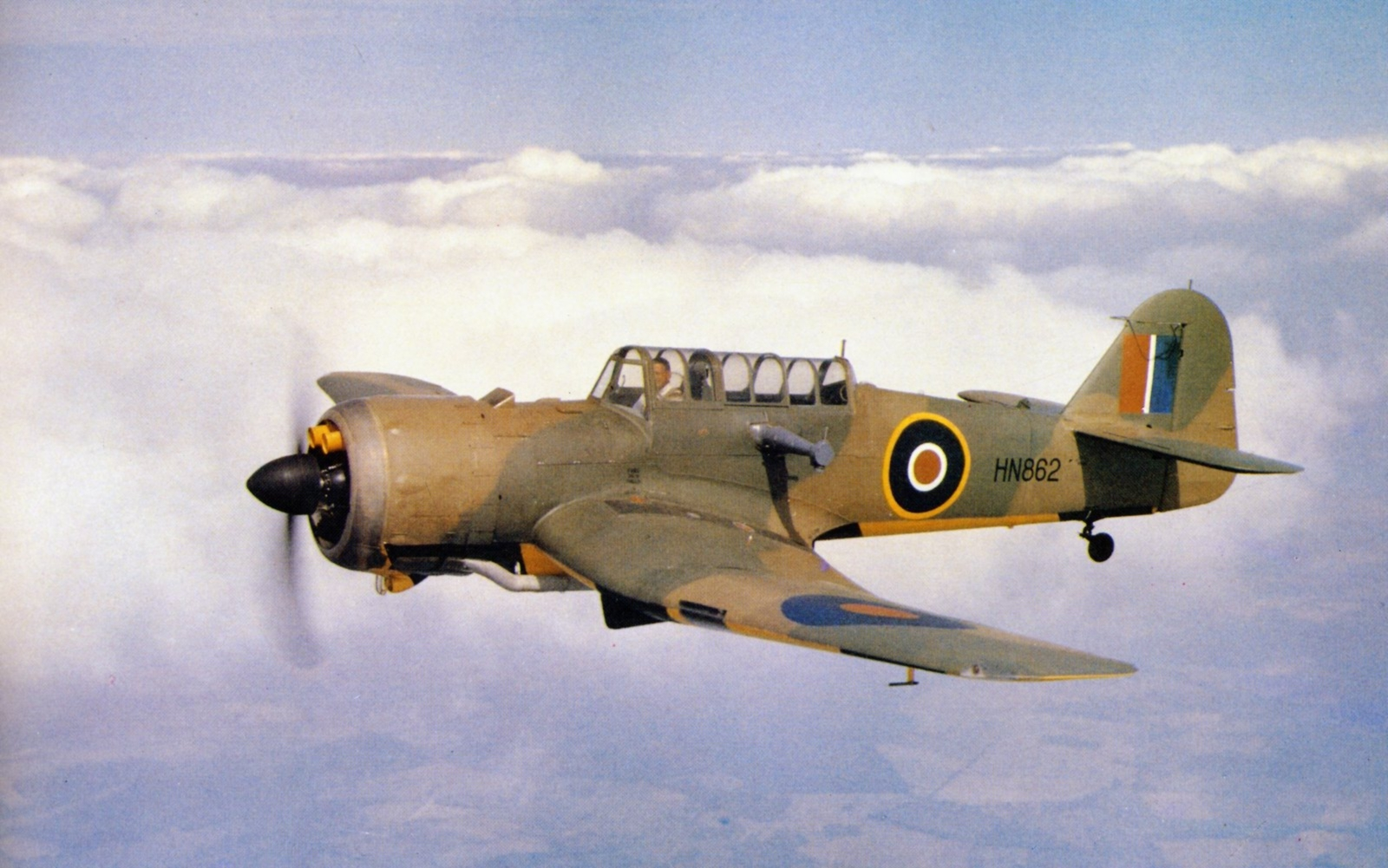 A Royal Air Force Miles Martinet TT Mark I (serial HN862) in flight. Following service with The RAE and the Aeroplane and Armament Experimental Establishment, HN862 joined No. 1634 (Anti-Aircraft Cooperation) Flight at Hutton Cranswick, Yorkshire (UK), where it was lost as a result of a forced landing on 7 July 1943.